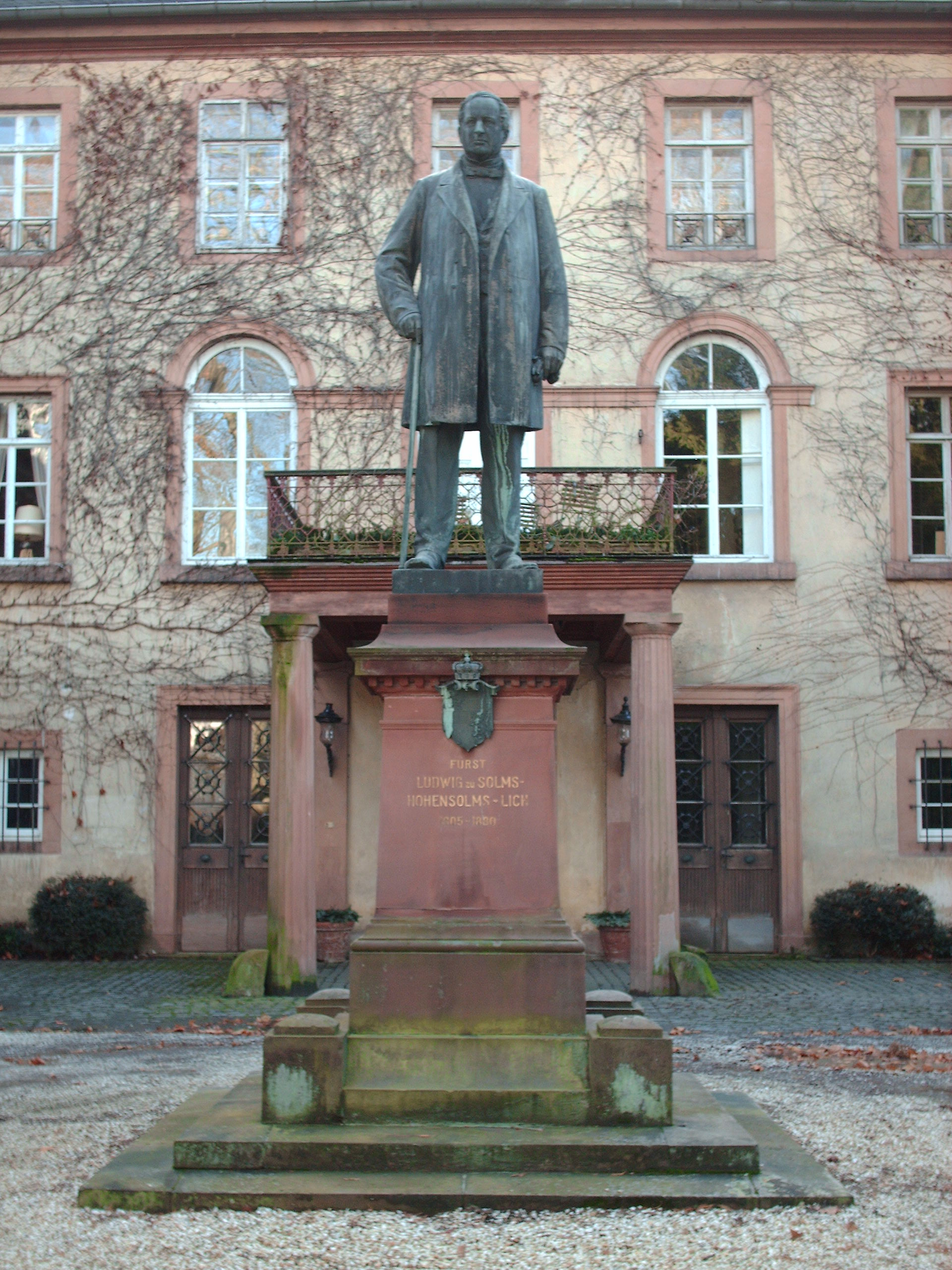 Ludwig zu Solms-Hohensolms-Lich, Lich, Germany check usage